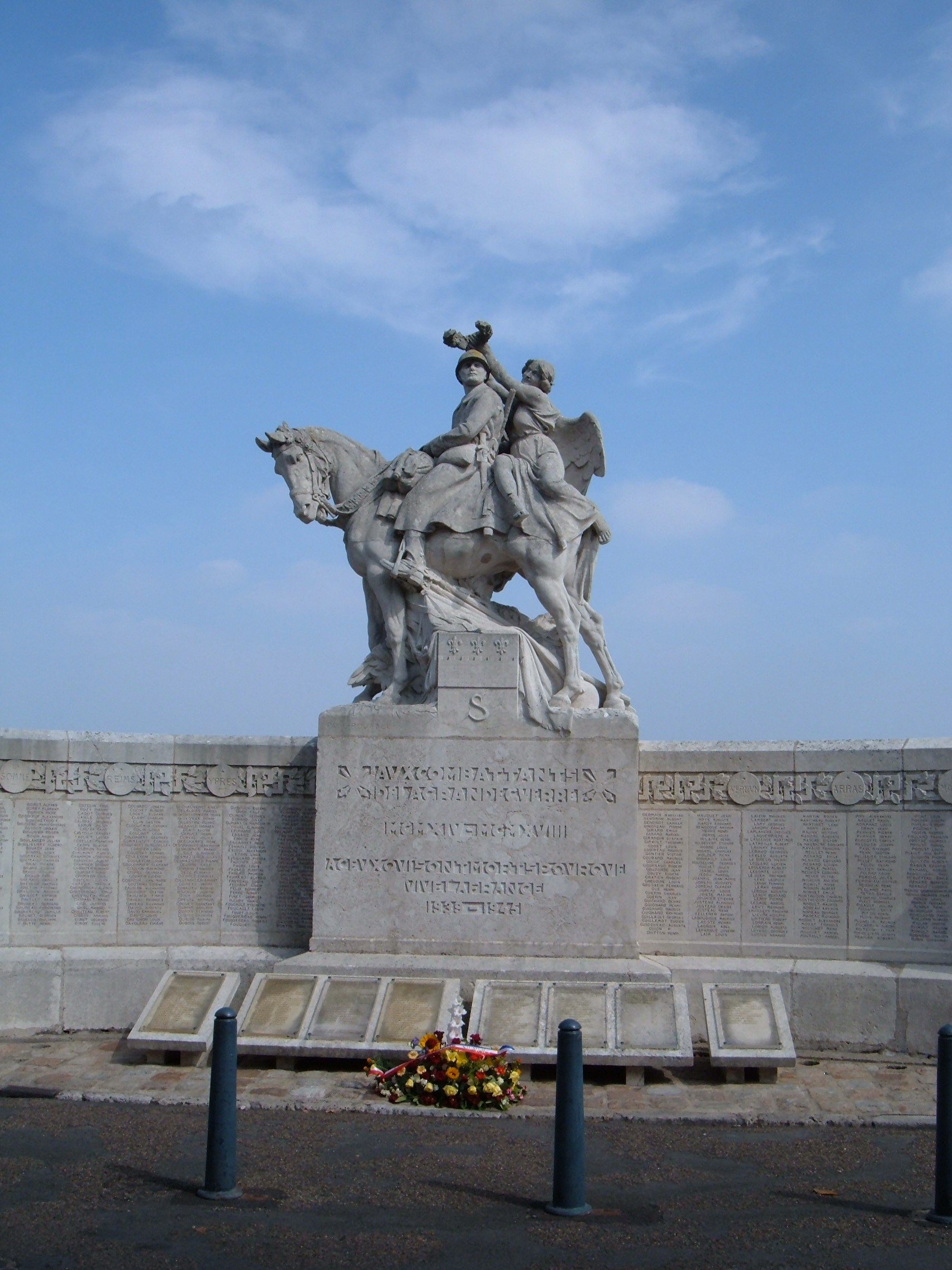 The central portion of a memorial in Saumur, France near the Loire River for World Wars I and II.